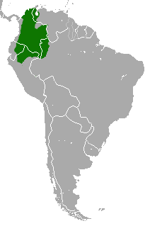 Venezuelan Red Howler (Alouatta seniculus) range